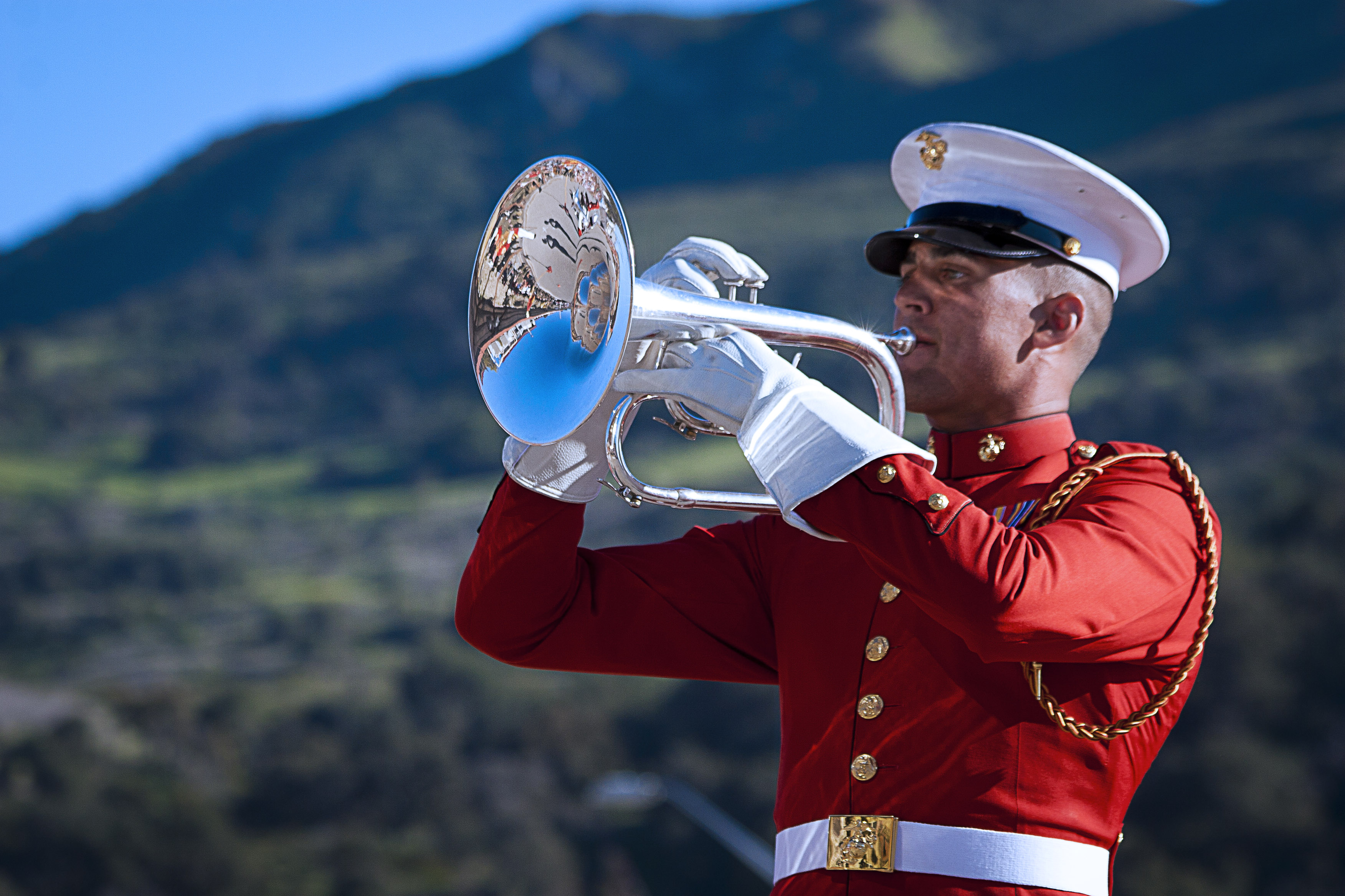 Sgt. Tyler Anthony, a U.S. Marine Drum & Bugle Corps mellophone player, performs during a Battle Color Detachment ceremony at the School of Infantry- West, Marine Corps Base Camp Pendleton, Calif., March 9, 2012.